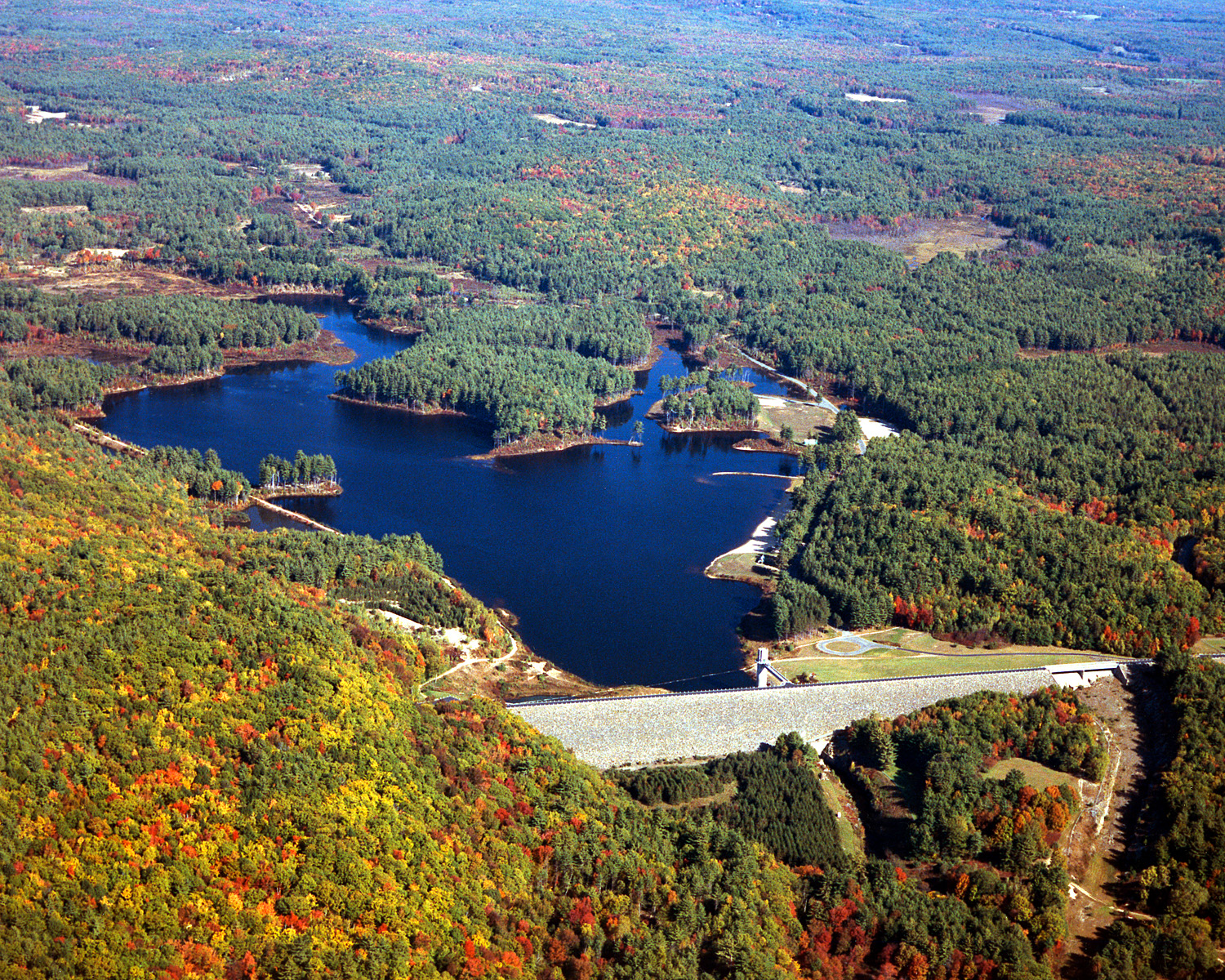 Everett Lake and Dam on the Piscataquog River in Merrimack County, New Hampshire, USA. The U.S. Army Corps of Engineers constructed the dam for flood control on the Piscataquog and Contoocook Rivers.